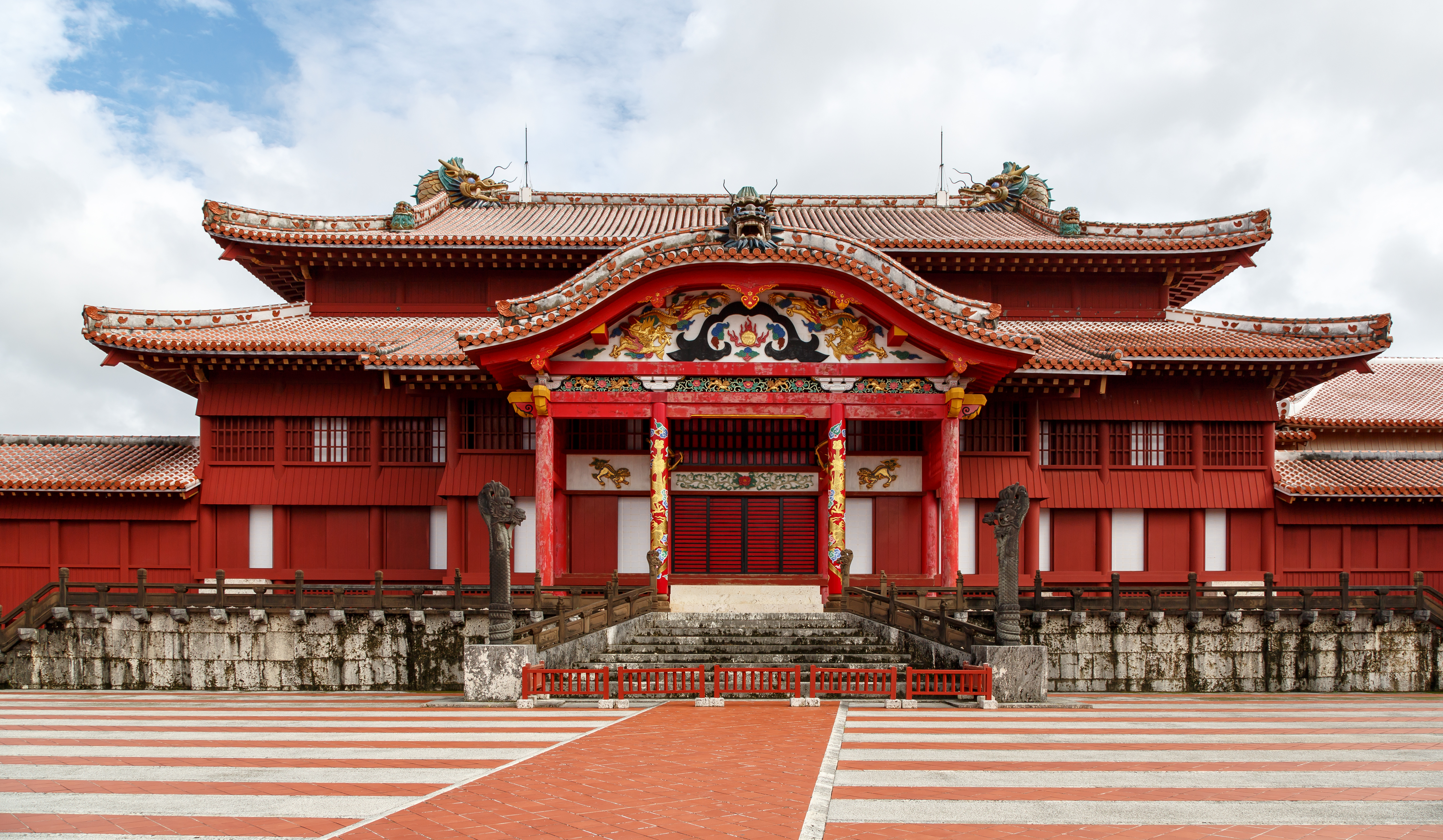 Naha, Okinawa, Japan: Palace building of Shuri Castle.